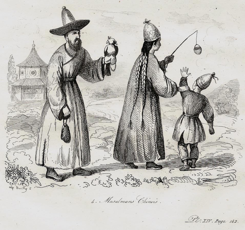 Chinese Muslims